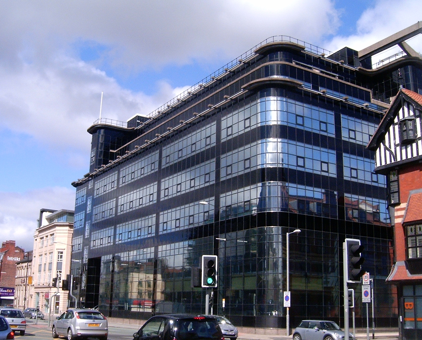 The Daily Express Building Manchester